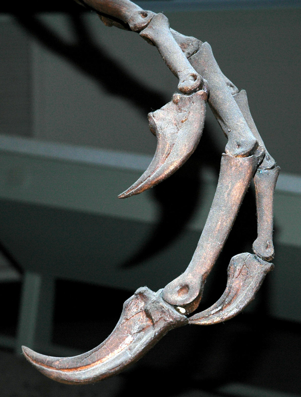 Anzu wyliei Lamanna et al., 2014 theropod dinosaur from the Cretaceous of South Dakota, USA (public display, reconstruction based on CM 7800 & CM 78001, Carnegie Museum of Natural History, Pittsburgh, Pennsylvania, USA). This new, odd, toothless dinosaur had a bony, keeled crest on its skull and long, clawed hands. Classification: Animalia, Chordata, Vertebrata, Dinosauria, Theropoda, Caenagnathidae Stratigraphy: Hell Creek Formation, upper Maastrichtian Stage, upper Upper Cretaceous Locality: western Harding County, far-northwestern South Dakota, USA Reference: Lamanna, M.C., H.-D. Sues, E.R. Schachner & T.R. Lyson. 2014. A new large-bodied oviraptorosaurian theropod dinosaur from the latest Cretaceous of western North America. Public Library of Science One ("PLOS ONE") 9(3): e92022. 16 pp. Theropod were small to large, bipedal dinosaurs. Almost all known members of the group were carnivorous (predators and/or scavengers). They represent the ancestral group to the birds, and some theropods are known to have had feathers. Some of the most well known dinosaurs to the general public are theropods, such as Tyrannosaurus, Allosaurus, and Spinosaurus.